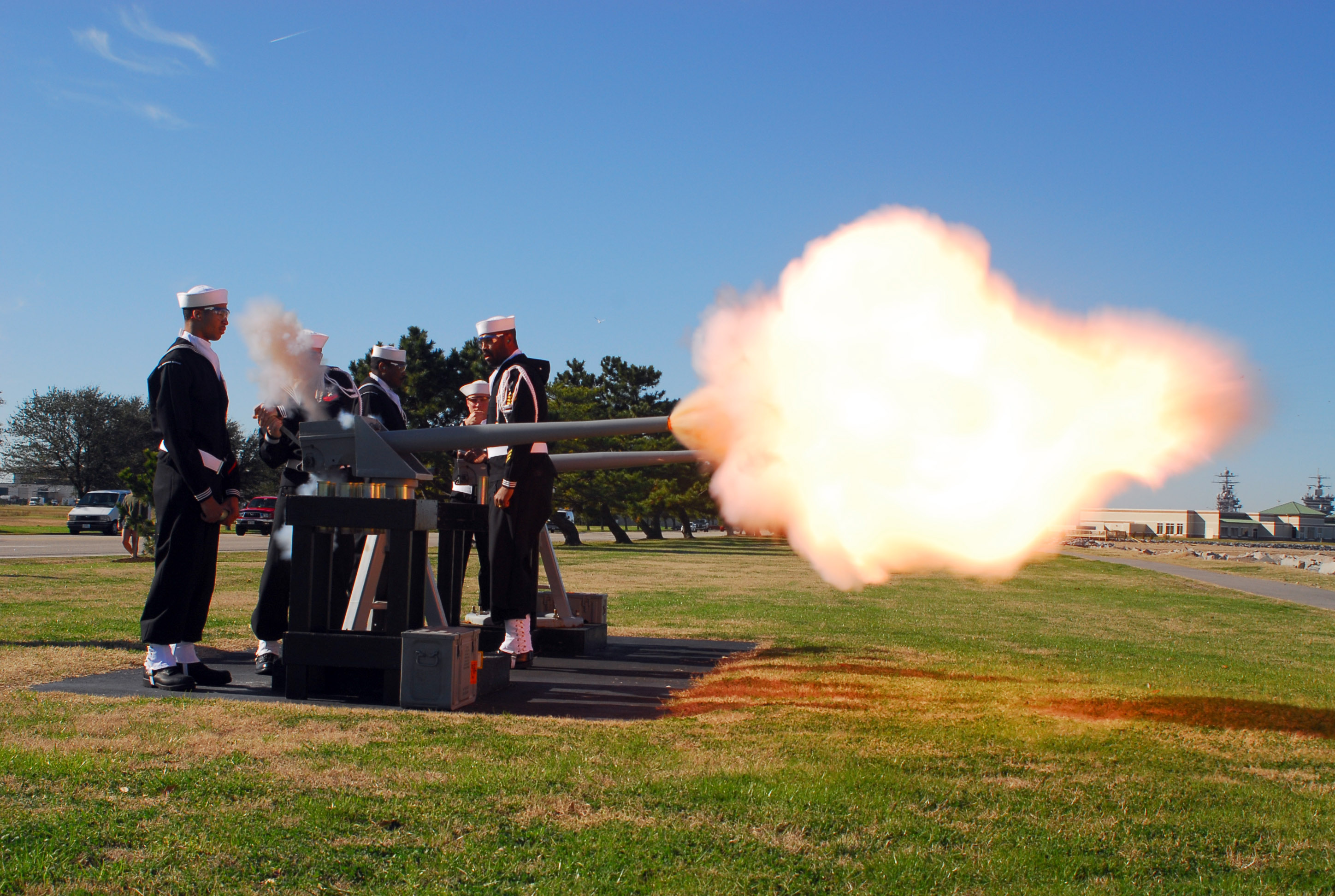 Norfolk, Va. (Jan. 3, 2007) - The Navy Munitions Command, detachment Sewells Point, performs a 21-gun salute at Iowa Point, located aboard Naval Station Norfolk. The 21-gun salute was in honor of former 38th president and Navy veteran Gerald R. Ford, who passed away Dec. 26, 2006, at his home in California. U.S. Navy photo by Mass Communication Specialist Seaman Kiona Mckissack (RELEASED)